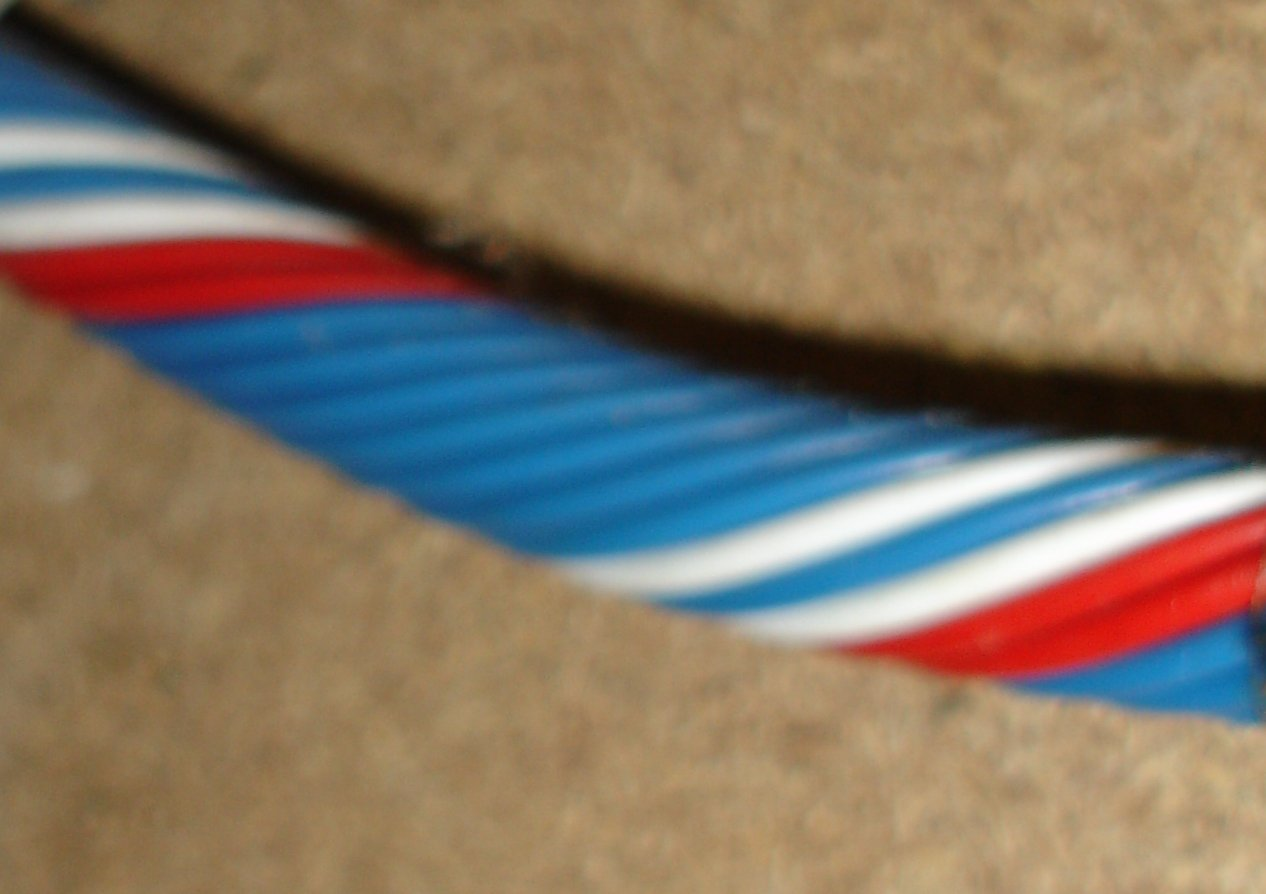 Telephone cable. The colours show how it must be installed: left to the telephone exchange, right to the subscriber